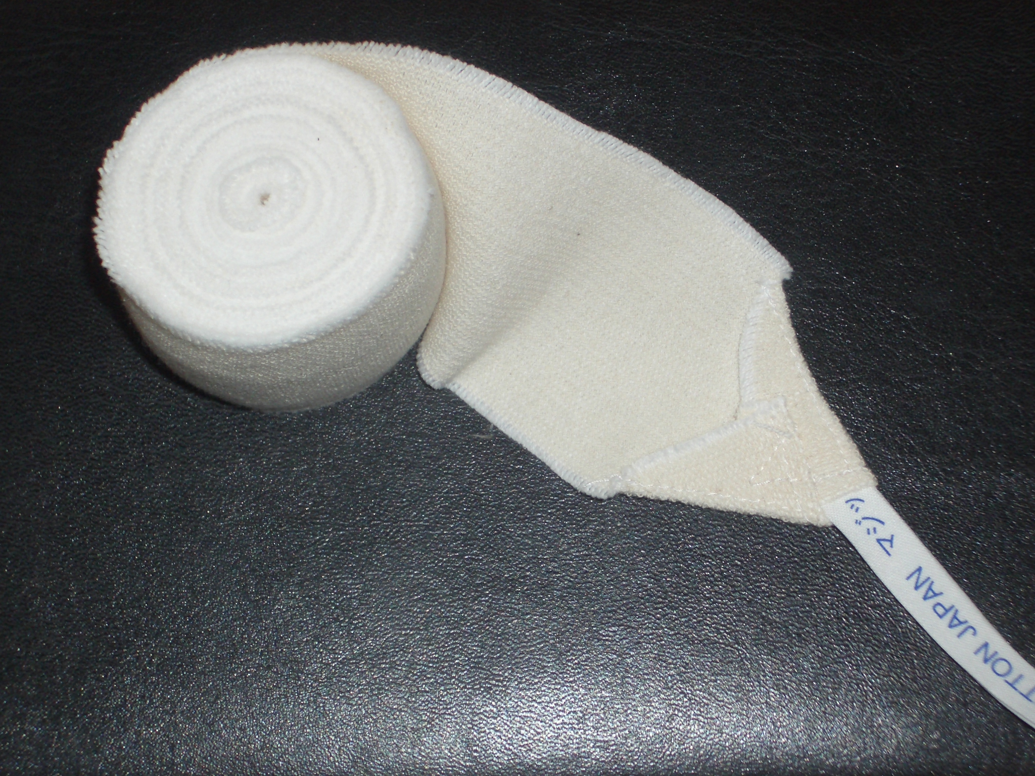 Official bandage for amateur boxing in Japan